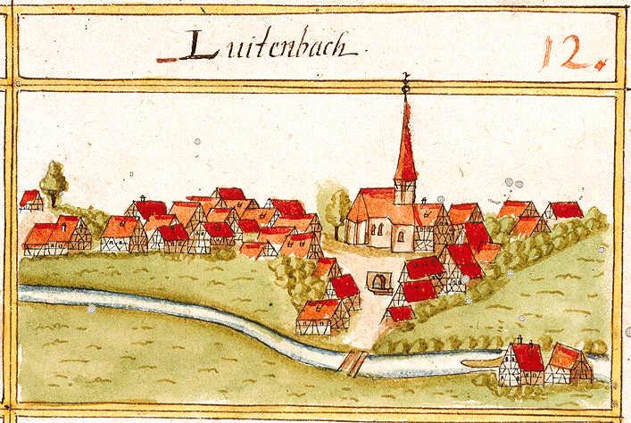 View of Leutenbach from the forest register books created by Andreas Kieser